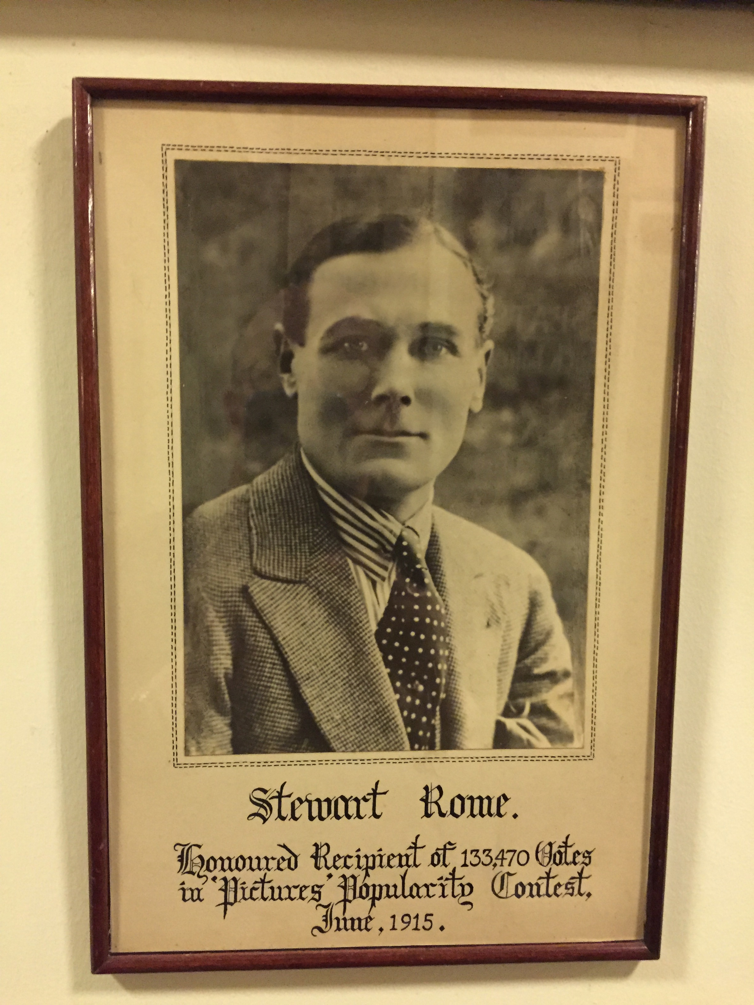 Certificate held at the Cinema Museum in London awarding English silent film star a 1915 popularity poll result.